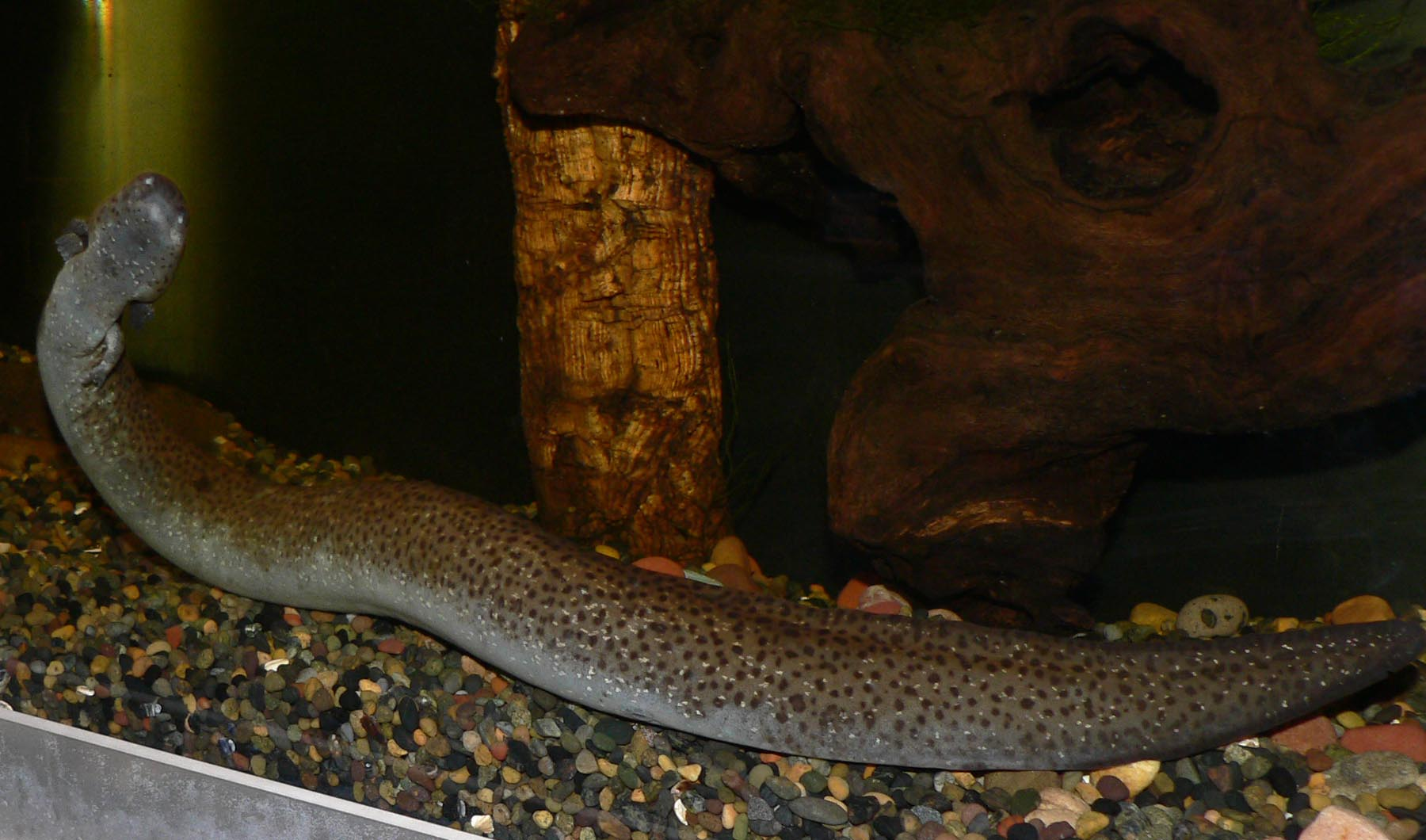 Siren intermedia (lesser siren) at the Steinhart Aquarium in San Francisco